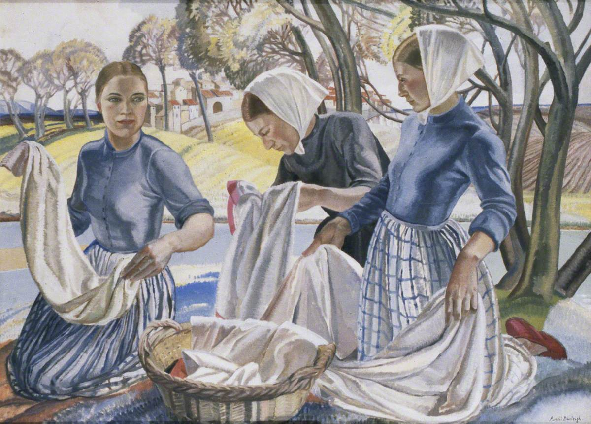 Burleigh, Averil; Washerwomen; Brighton and Hove Museums and Art Galleries; say 1930